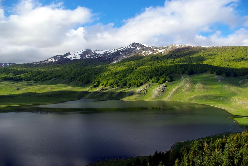 View of Campo Felice Lake in spring - Abruzzo, Italy